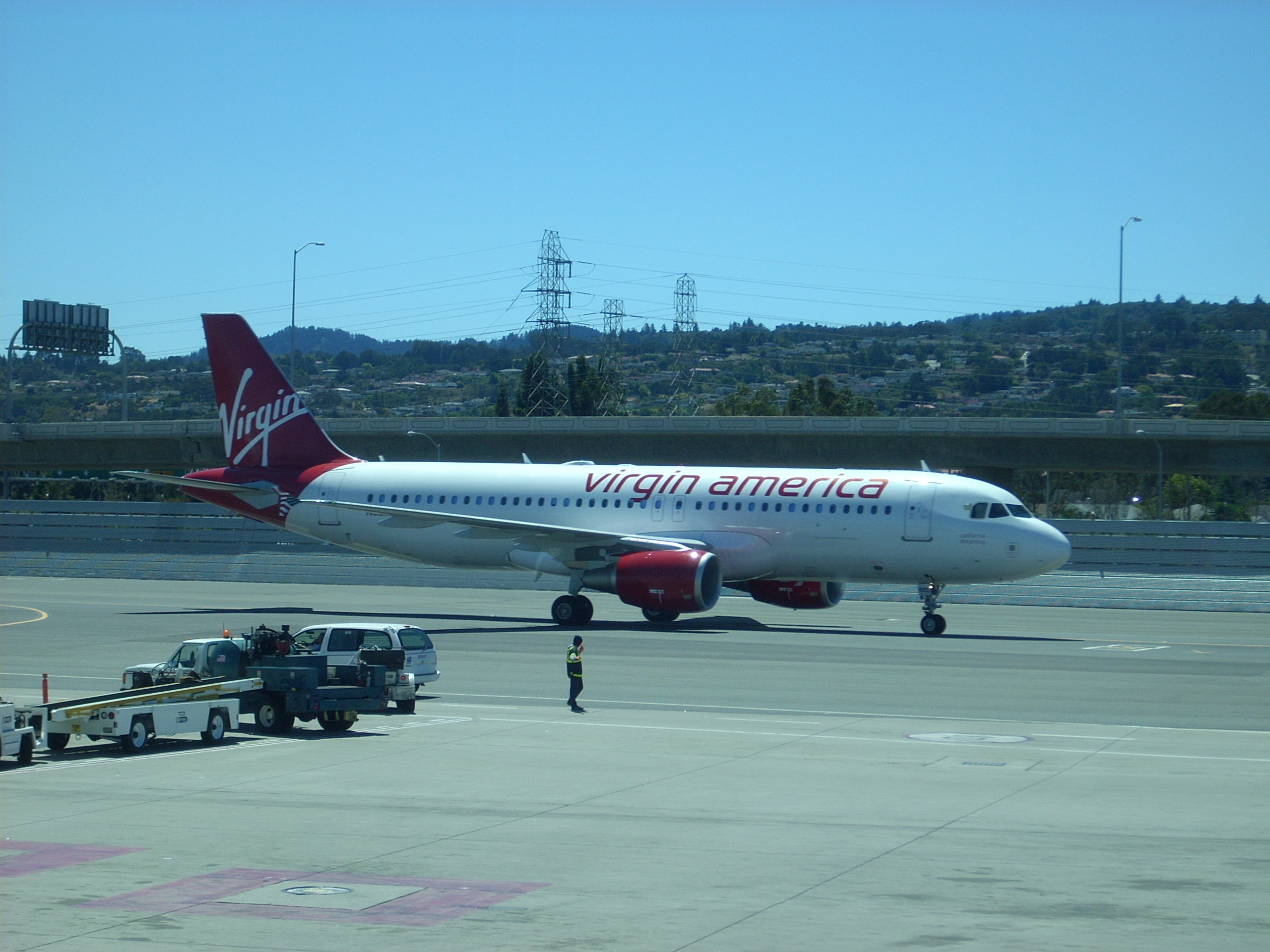 "California Dreaming" (N622VA) at San Francisco International Airport